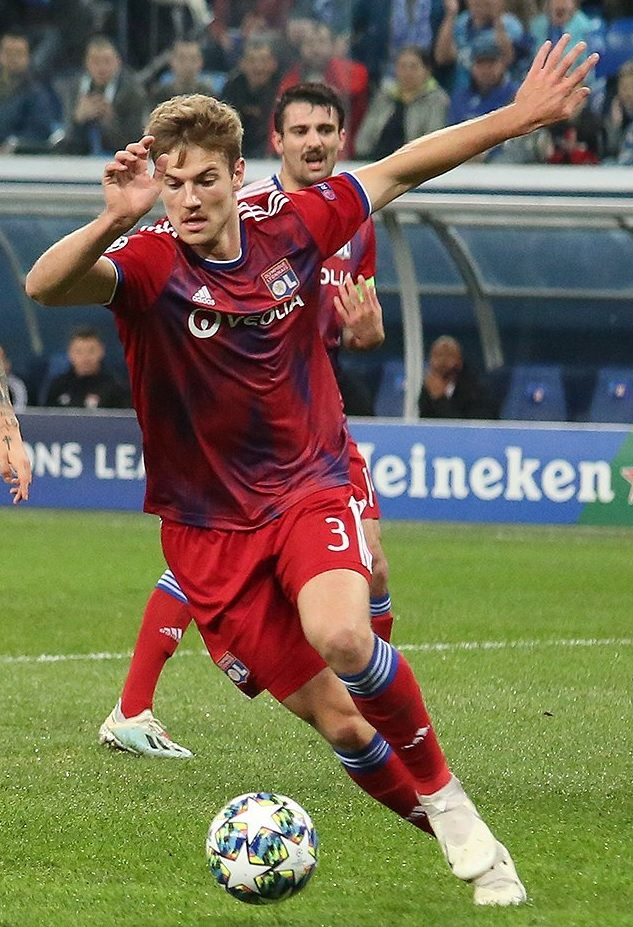 Joachim Andersen with Lyon in a Champions League game against FC Zenit Saint Petersburg.